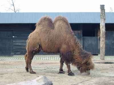 Bactrian Camel in a Belgian Zoo